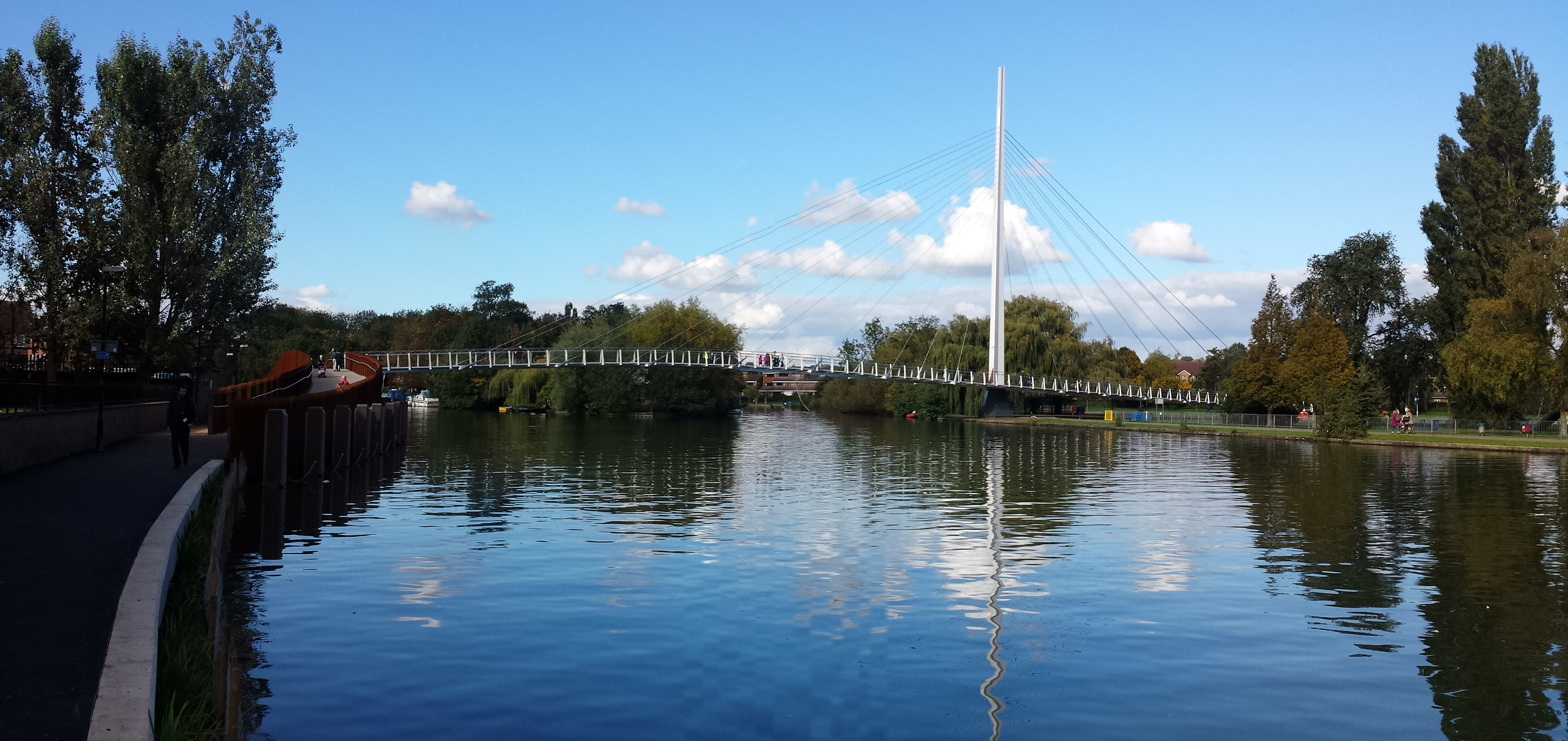 The cycle and pedestrian Bridge across the River Thames in the centre of Reading, with Christchurch Meadow on the far bank